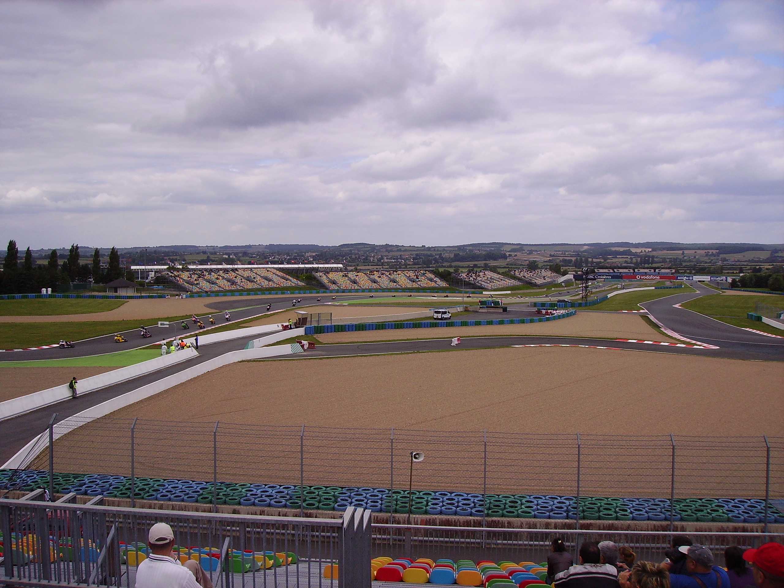 Circuit de Nevers Magny-Cours seen between « Adélaïde » and « Château d'eau » hairpins.